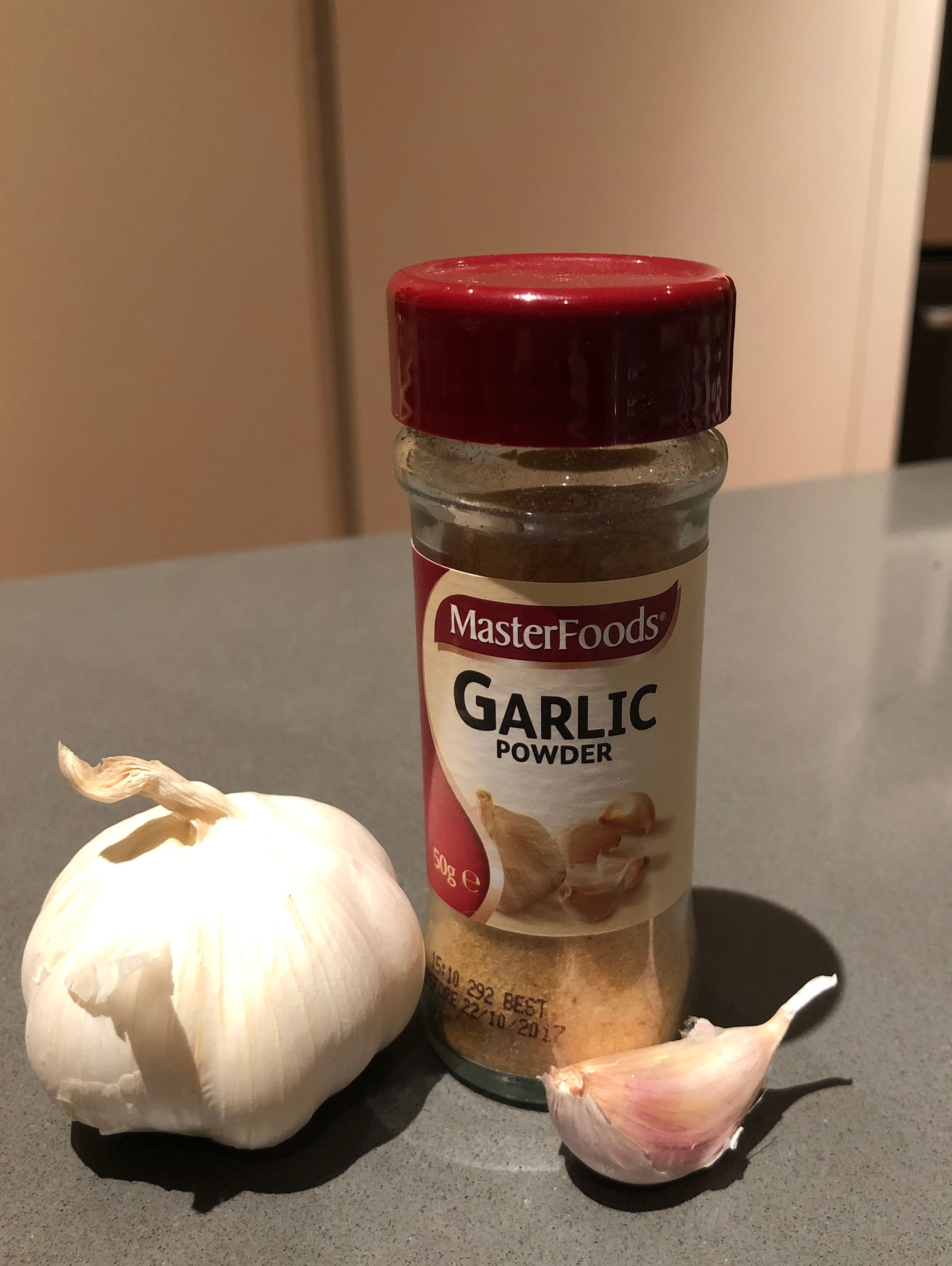 Garlic powder from a key player in the powder industry.